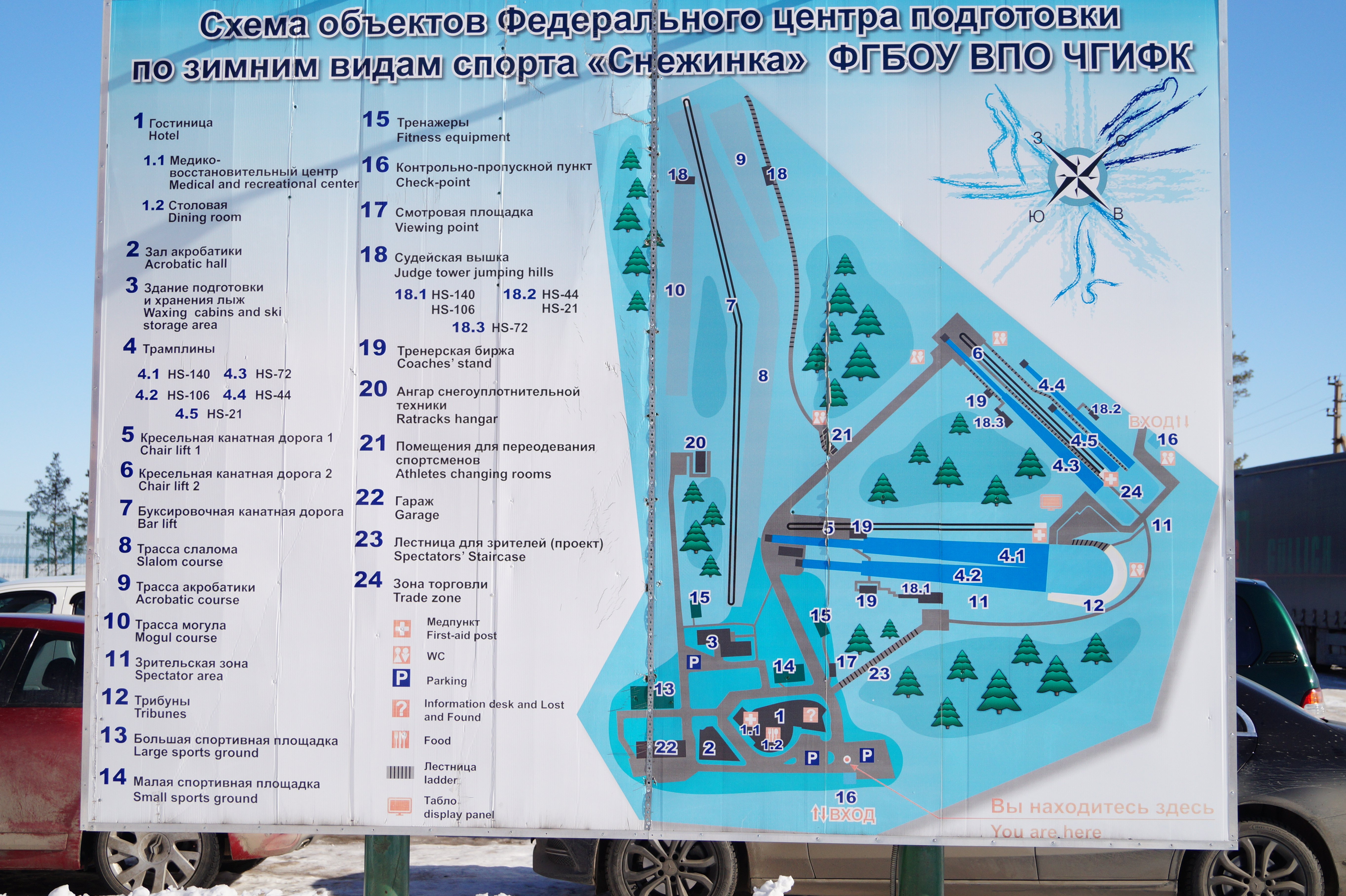 Snezhinka Ski Center (plan of center)